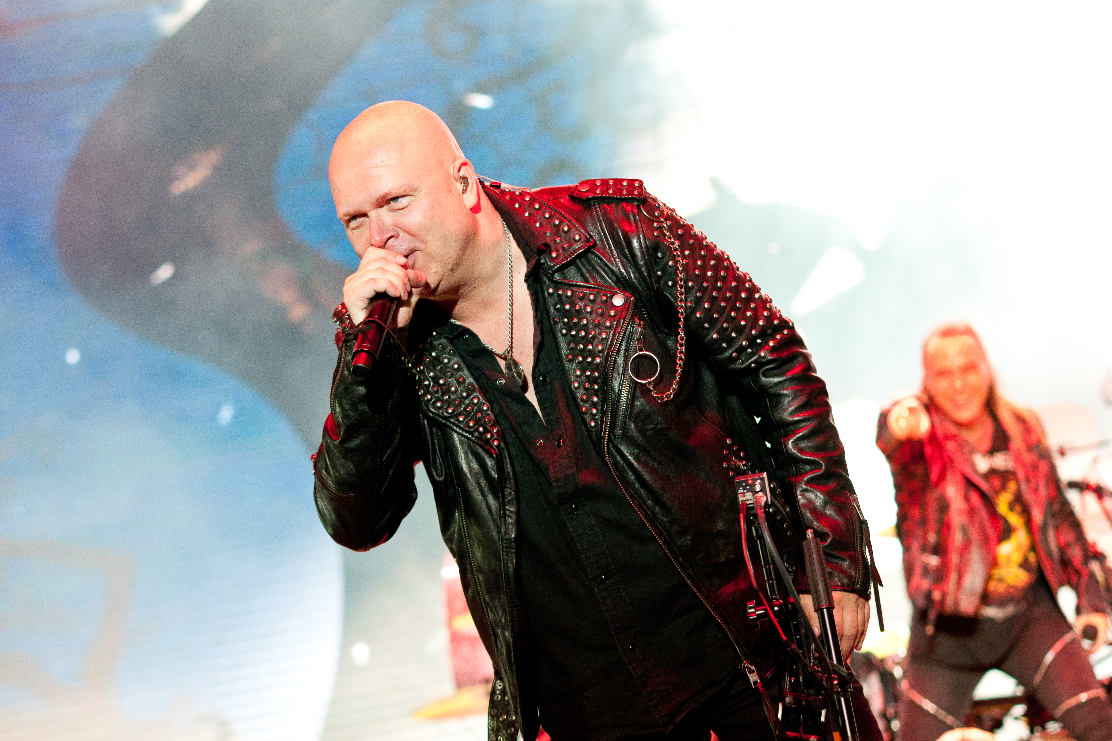 Michael Kiske - Helloween at Masters of Rock 2018 "Pumpkins United" Vizovice, Czech Republic. Michael Kiske - Helloween - Masters of Rock 2018, Vizovice, Czech Republic.